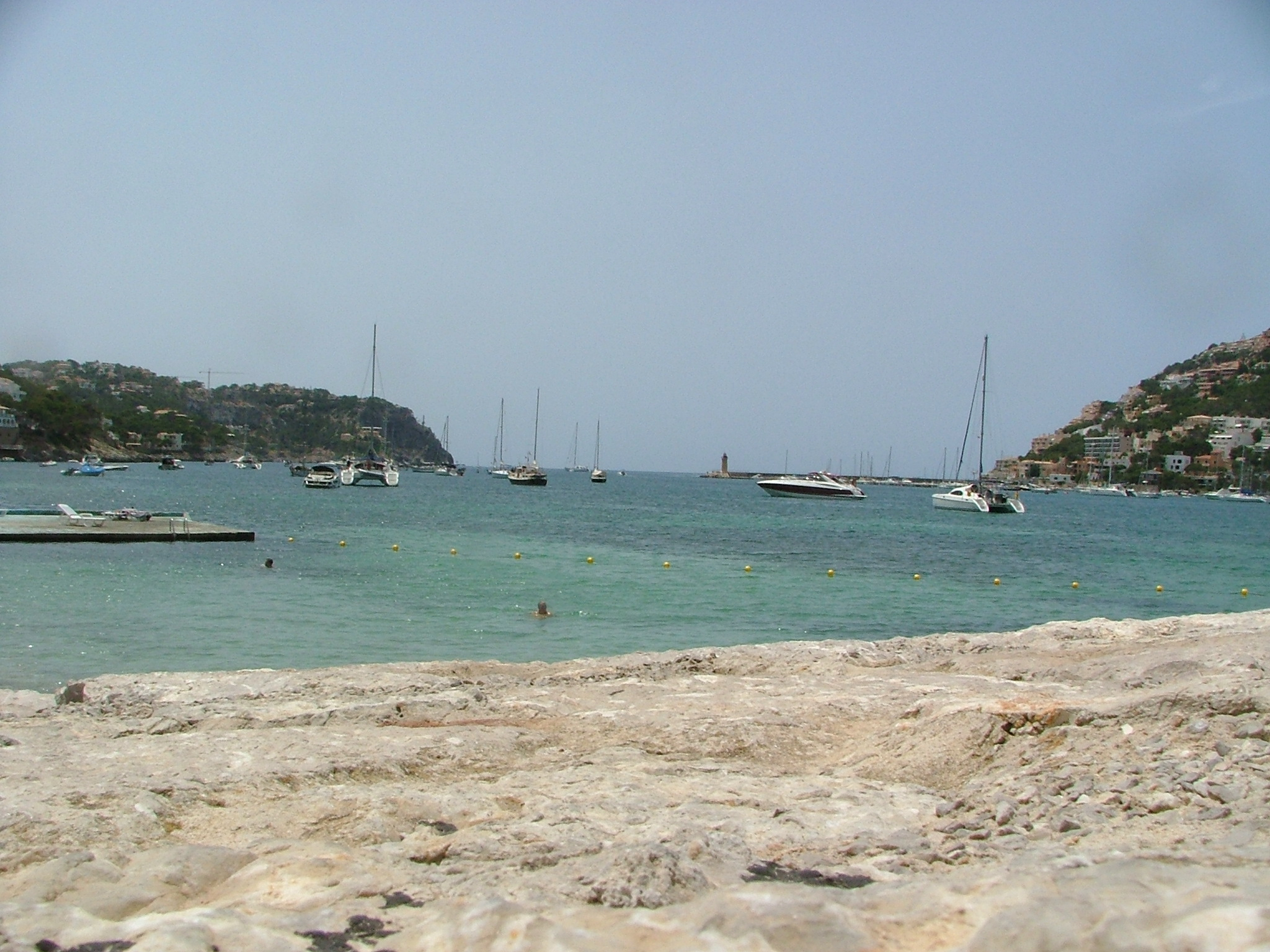 Port of Andratx, Mallorca, Spain